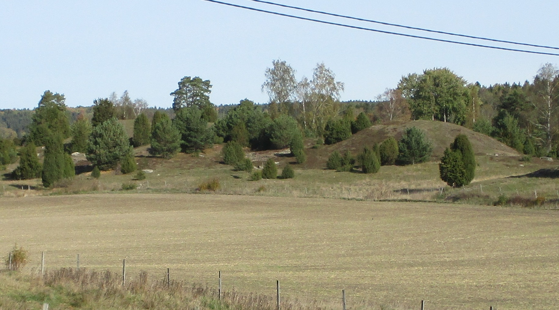 The Vada royal tumuliPlace: Vallentuna, Sweden